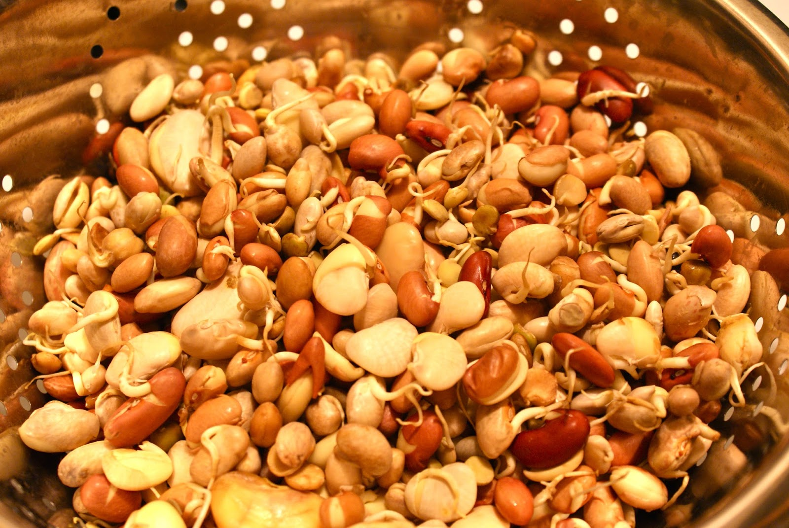 Ingredient of Kwati